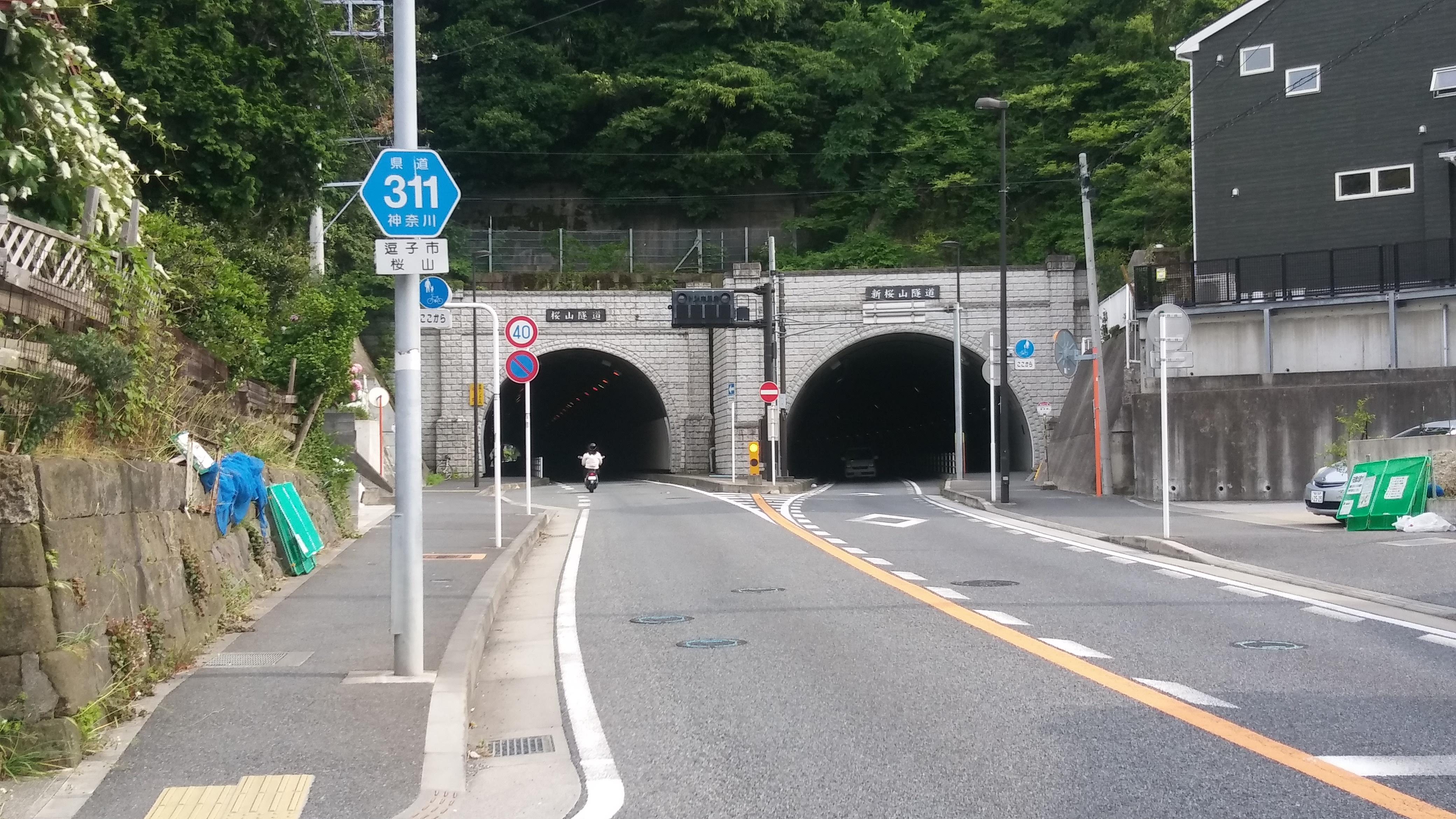 Sakurayama tunnel between Zushi-shi and Hayama-cho, Kanagawa-ken.